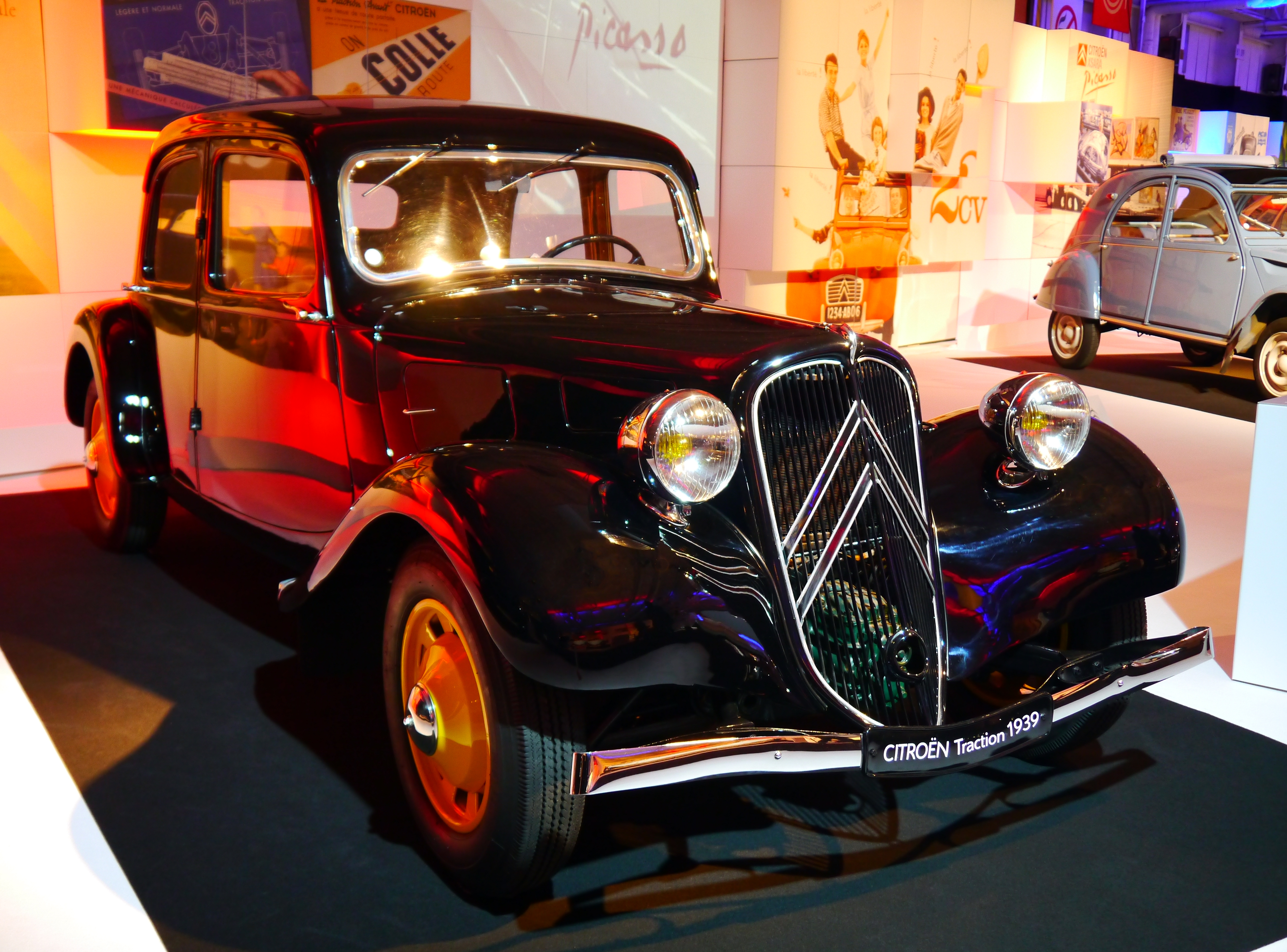 1939 Citroën 11 BL Traction Avant. 4-cylinder 1911 cc engine (56 bhp).